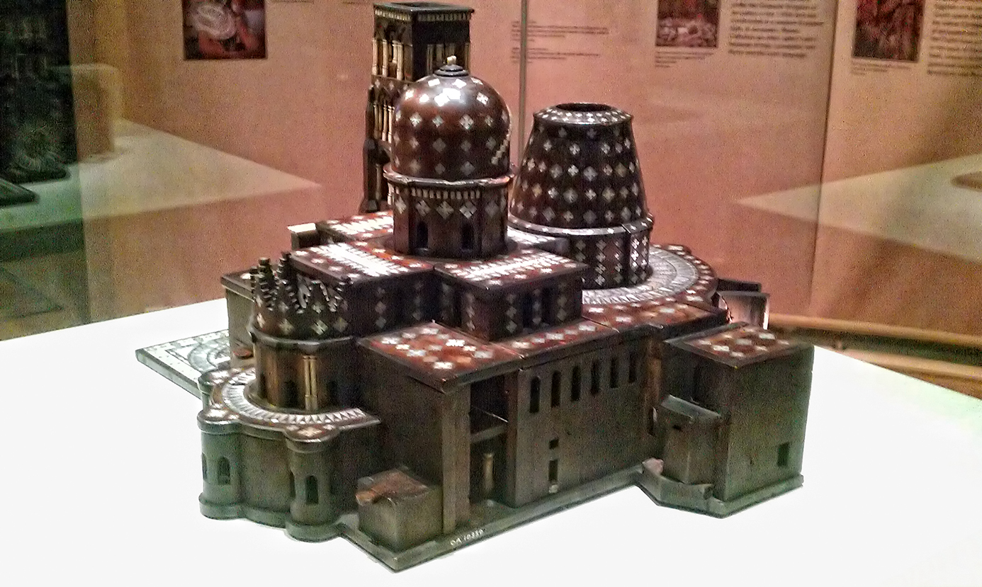 A scale model of the Church of the Holy Sepulchre — made in Bethlehem in the late 1600s of the church in Jerusalem which is a special place of pilgrimage. Many Christians believe it to be the site of Jesus’ tomb. The Church of the Holy Sepulchre in Jerusalem is one of the most important shrines in Christianity. Many Christians believe that it marks the place where Jesus was crucified and buried, and where he rose again from the dead. It has been a special place of pilgrimage since it was founded in AD 326. This display focuses on a highly crafted scale model of the church made in Bethlehem in the late 1600s. It is made of wood and intricate mother-of-pearl inlay, and can be disassembled to reveal the different parts of the church within. Models like this were made and sold as souvenirs to visiting pilgrims and for export throughout Europe as reminders of the central event of the Christian faith – the death and resurrection of Christ.